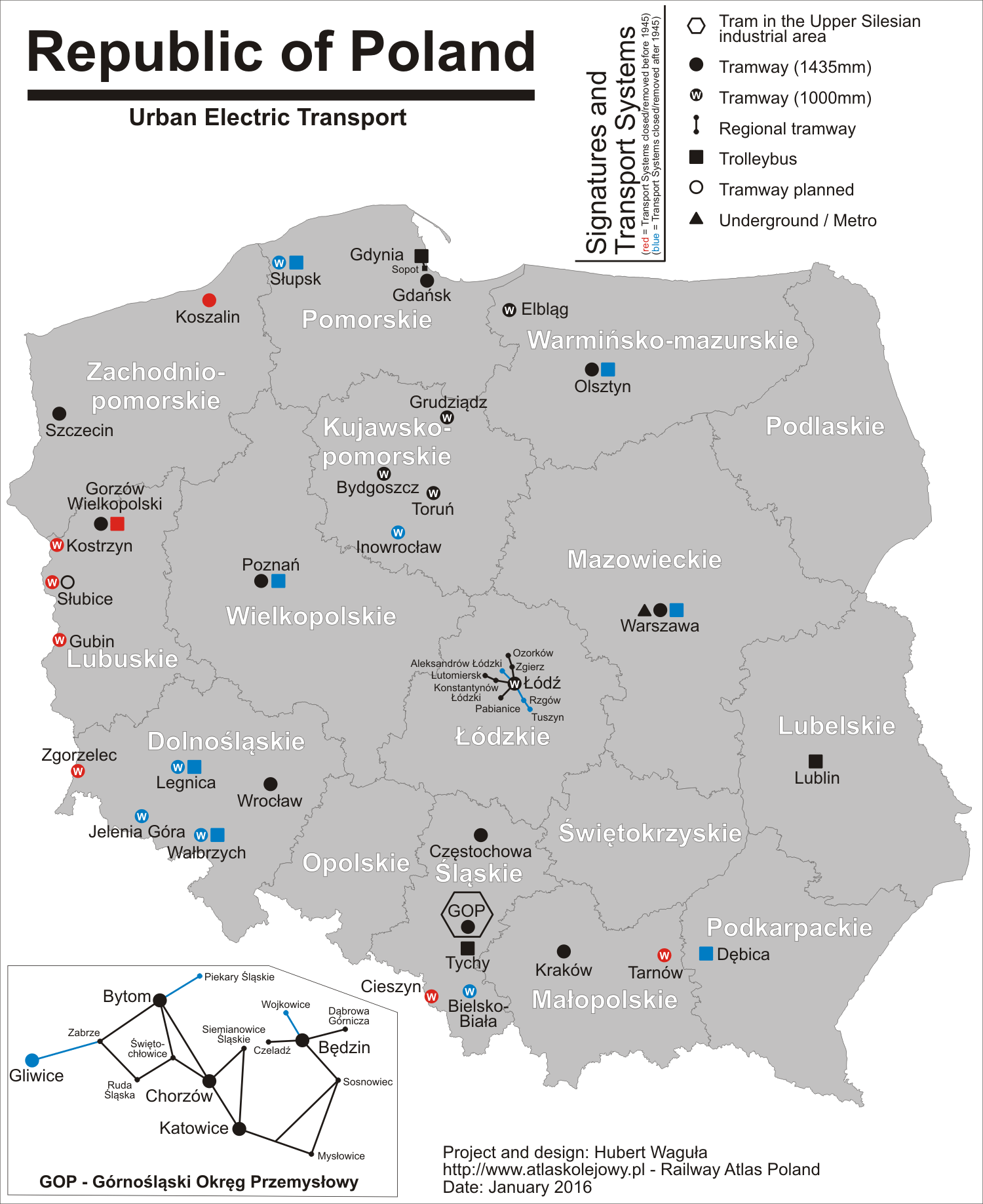 Tramways and trolleybus networks in Poland, January 2016